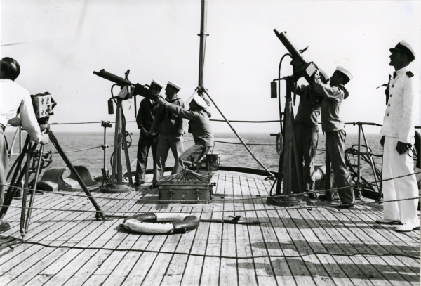 Early anti aircraft machine guns onboard the Swedish coastal defence ship HMS Drottning Victoria.